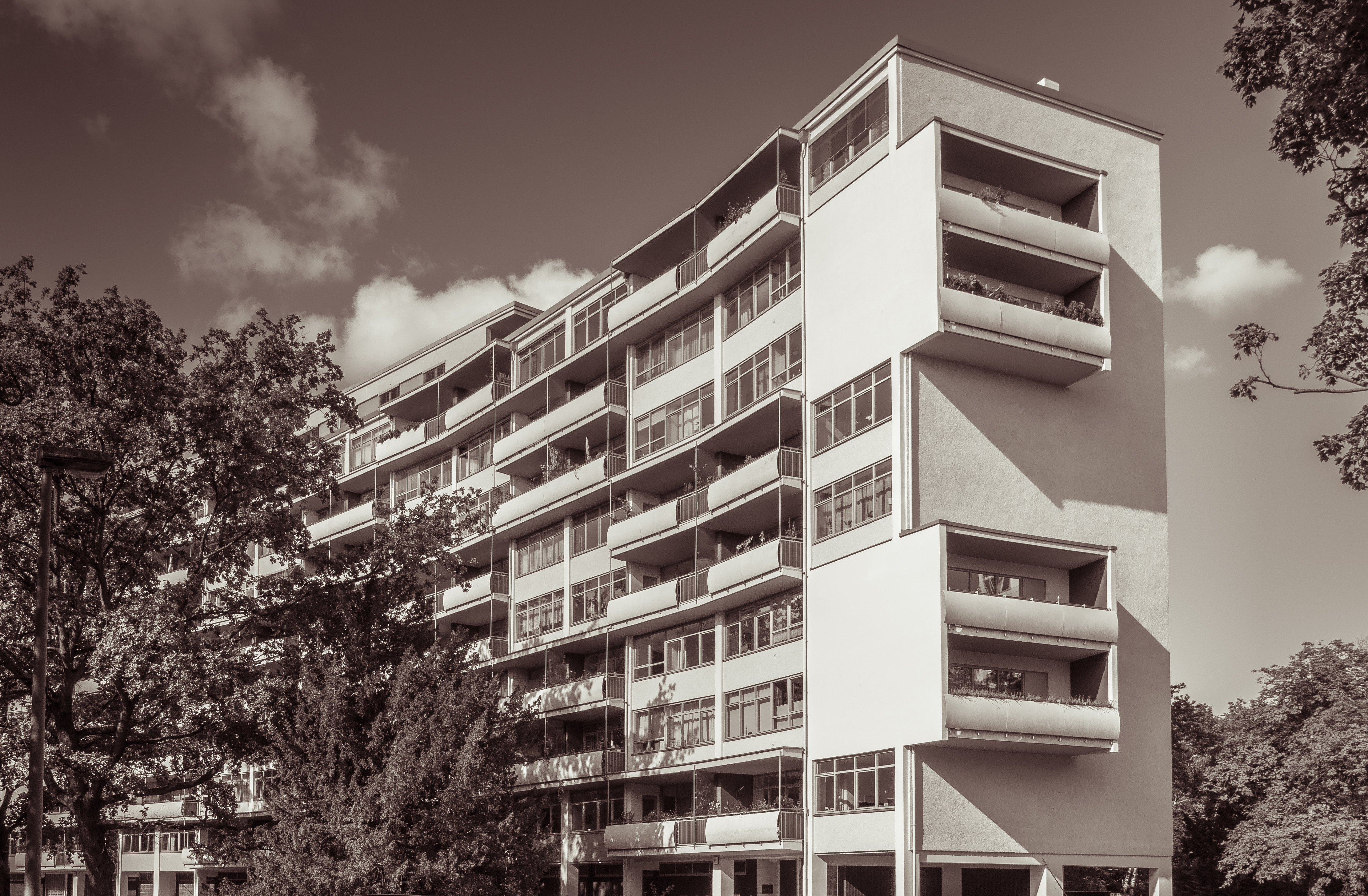 Walter-Gropius-Haus in Hansaviertel, Berlin viewed from Händelallee